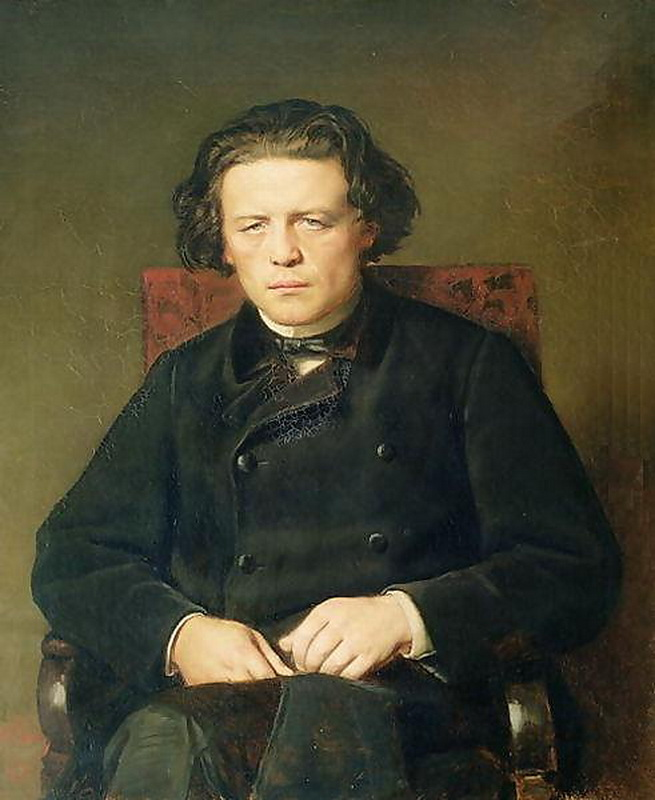 Portrait of A.G. Rubinstein